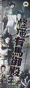 Japanese movie poster for 1953 Japanese film Ghost-Cat of Arima Palace (Kaibyo Arima goten).